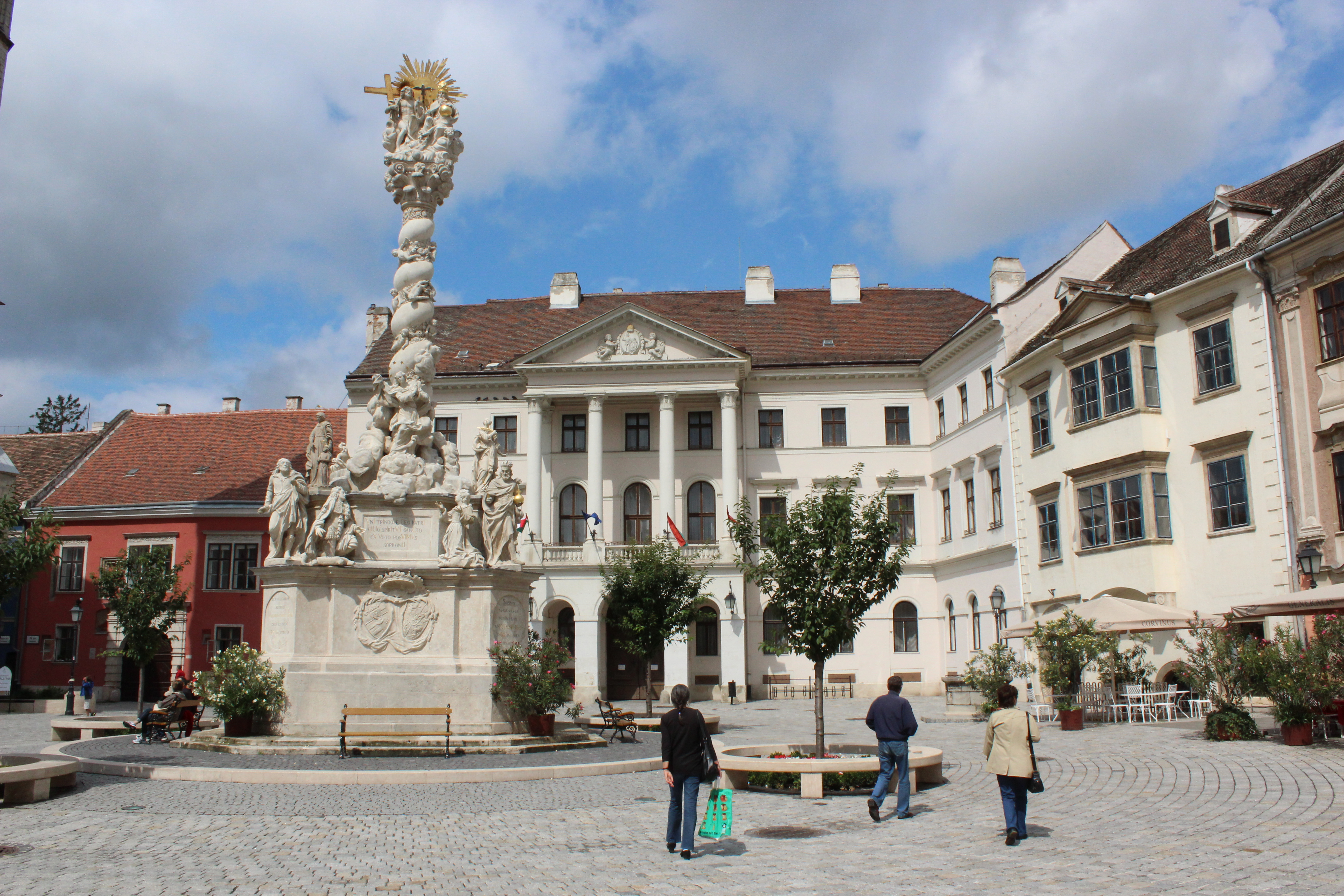 Holy Trinity Column (1701, renovated in 2011) in Sopron, Hungary. In the background the Former County Hall.